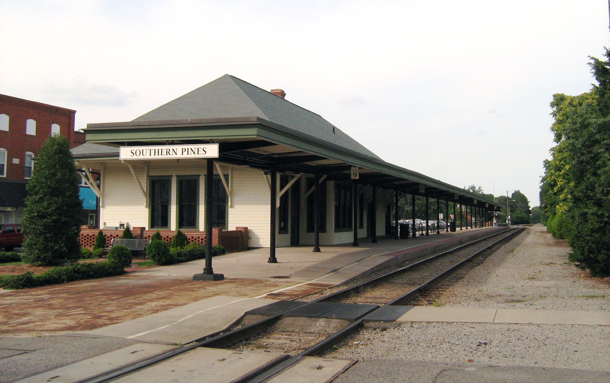 Train station (Amtrak - SOP) in Southern Pines, North Carolina